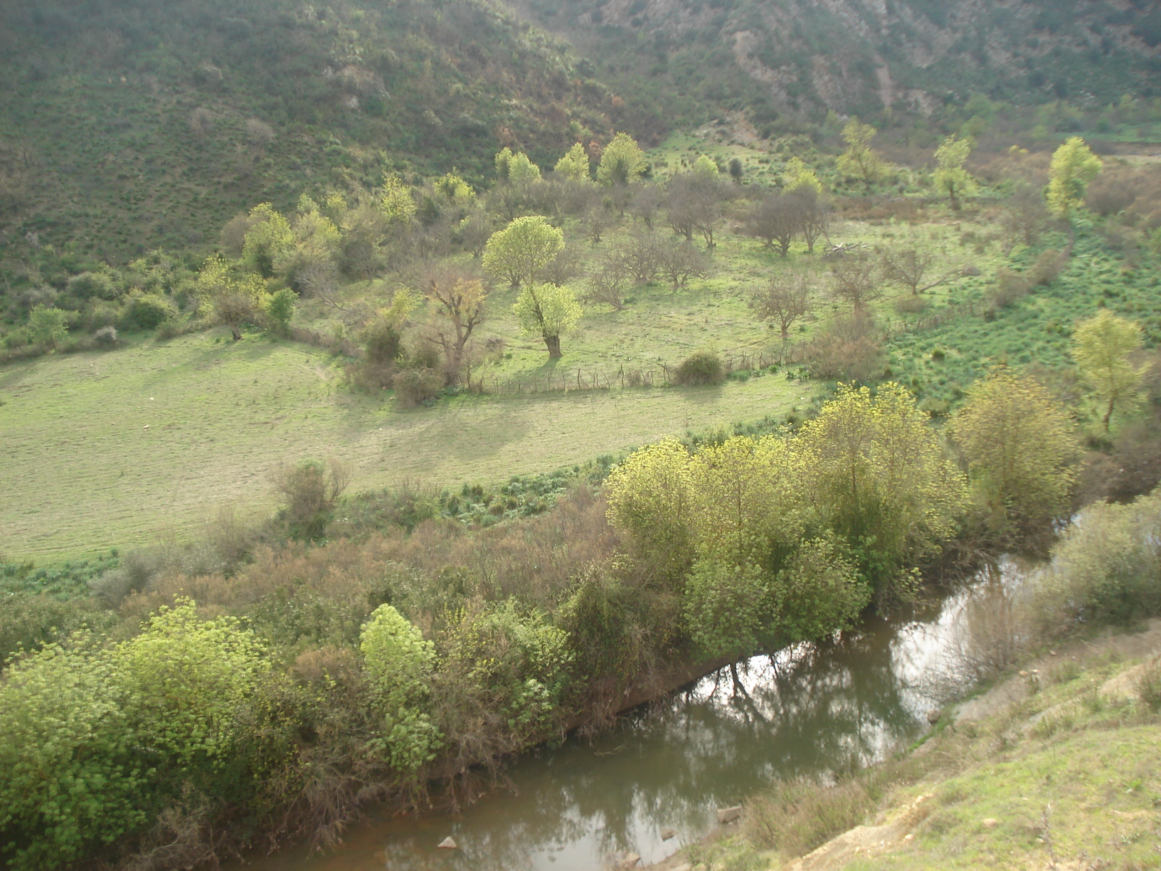 A little farm and garden in the region of souk-ahras